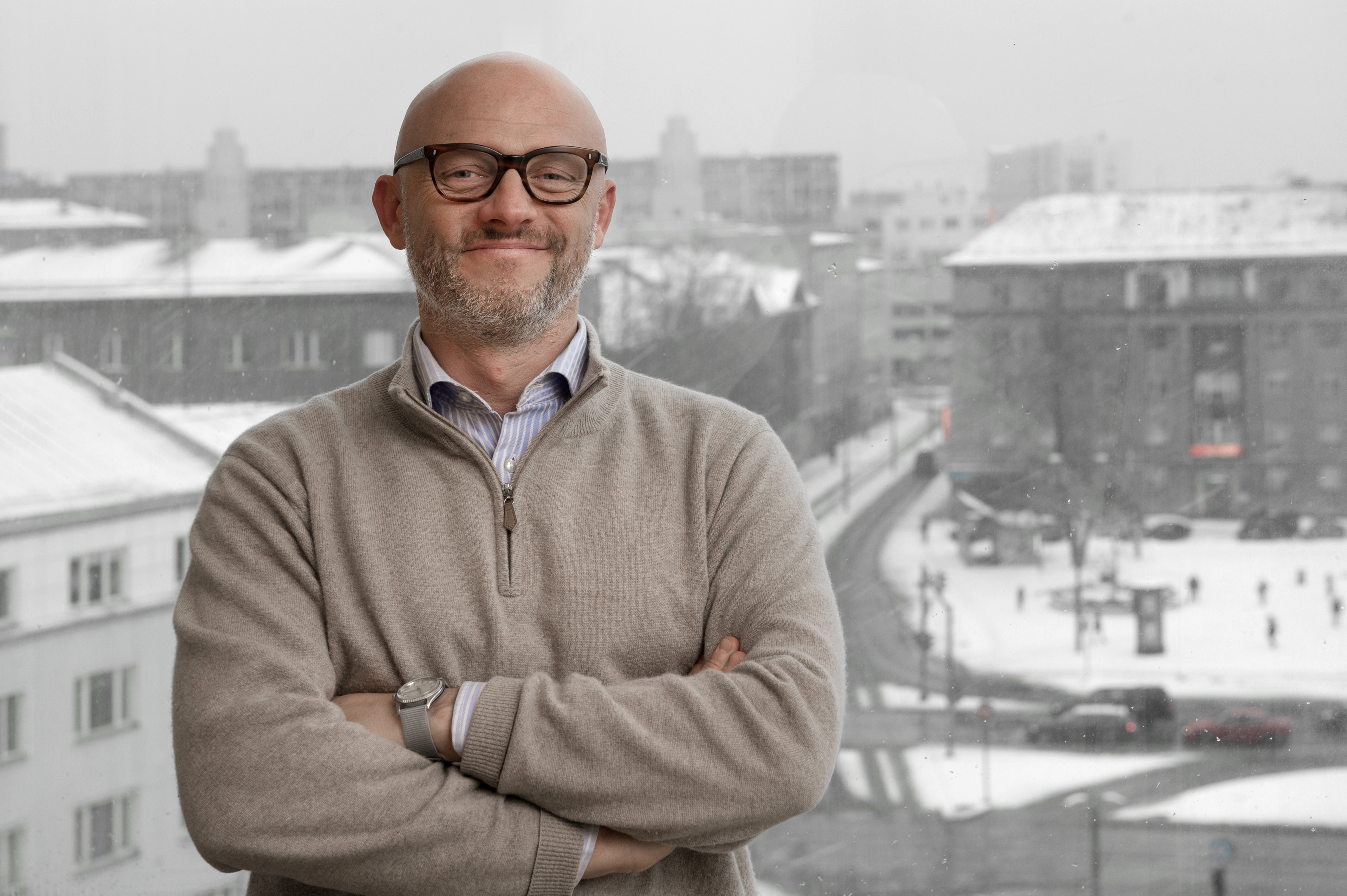 Francesco Olcelli